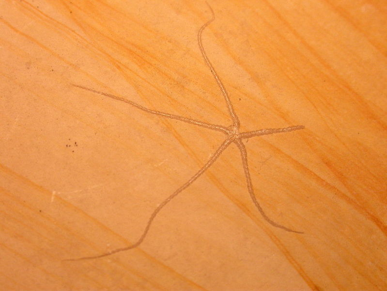 Brittle star fossil from Solnhofen limestone.